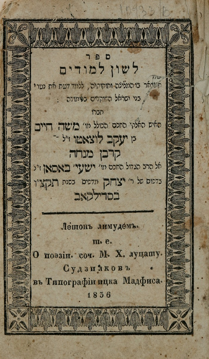 1836 edition of Lashon Limudim, by Moshe Chaim Luzatto .